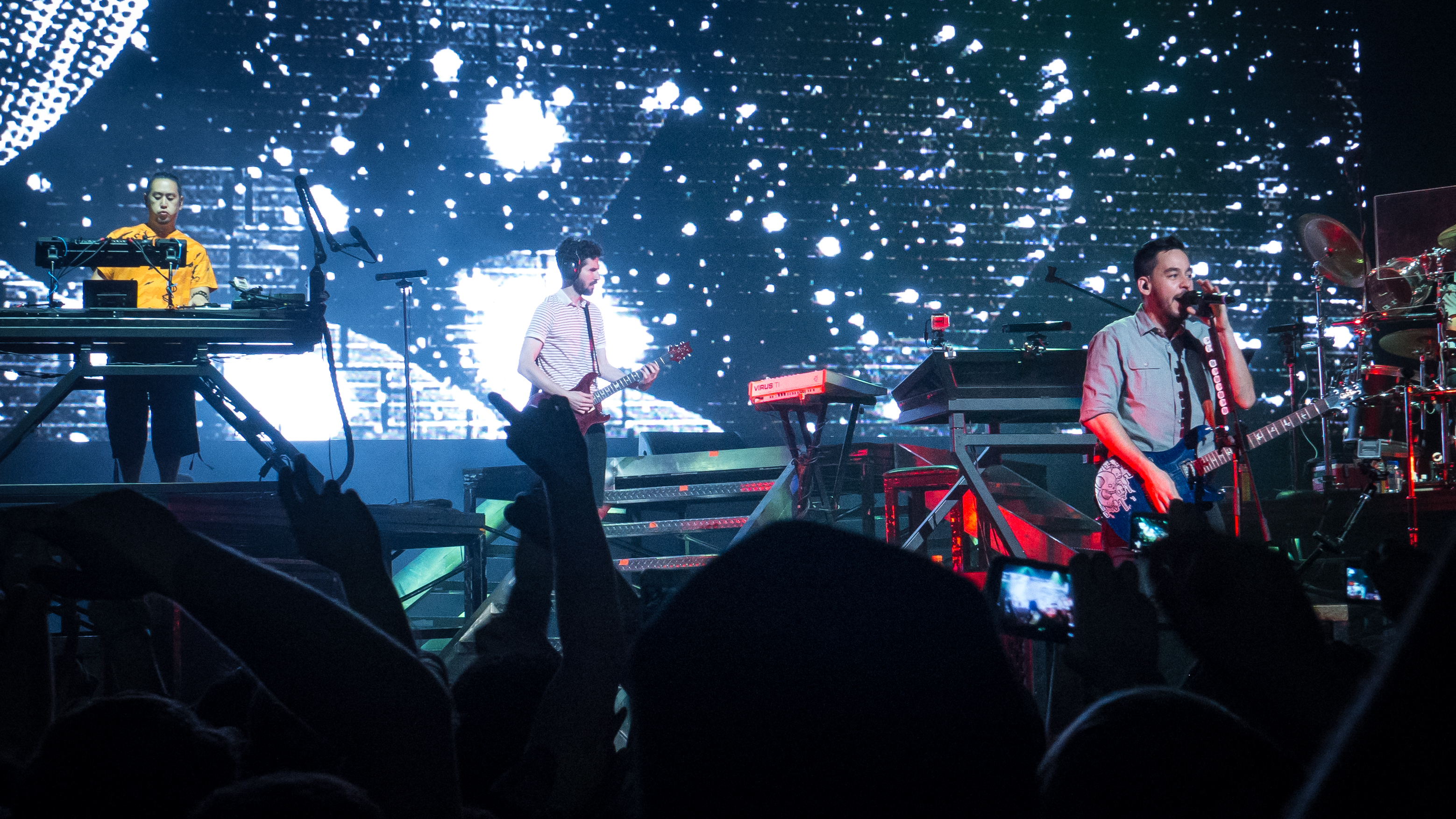 Linkin Park live in 2013.